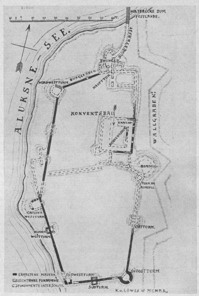 Ground plan of the Alūksne Castle according Karl von Lövis of Menar. Dark lines: visible walls; shaded lines: visible basements; dashed: basement under rubble. Visibility of walls mostly corresponds to that of 2010.